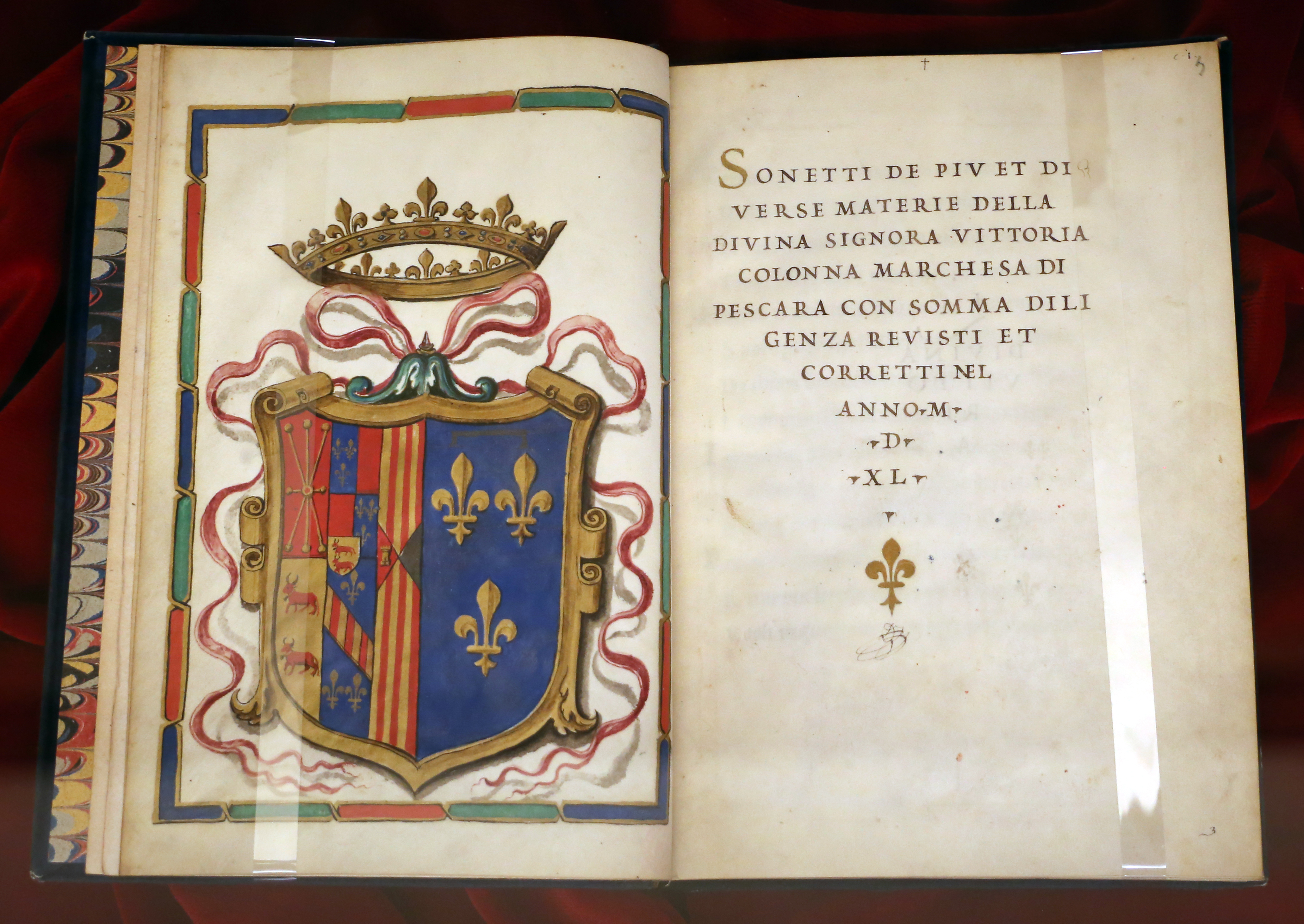 Biblioteca Medicea Laurenziana manuscripts